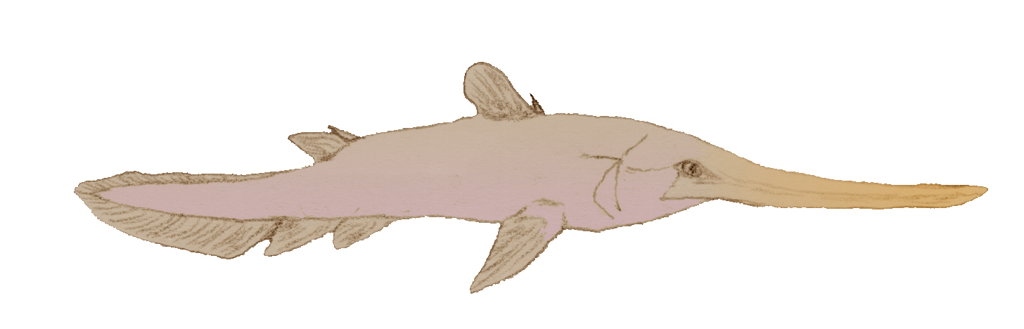 Restoration of Bandringa rayi, an extinct shark